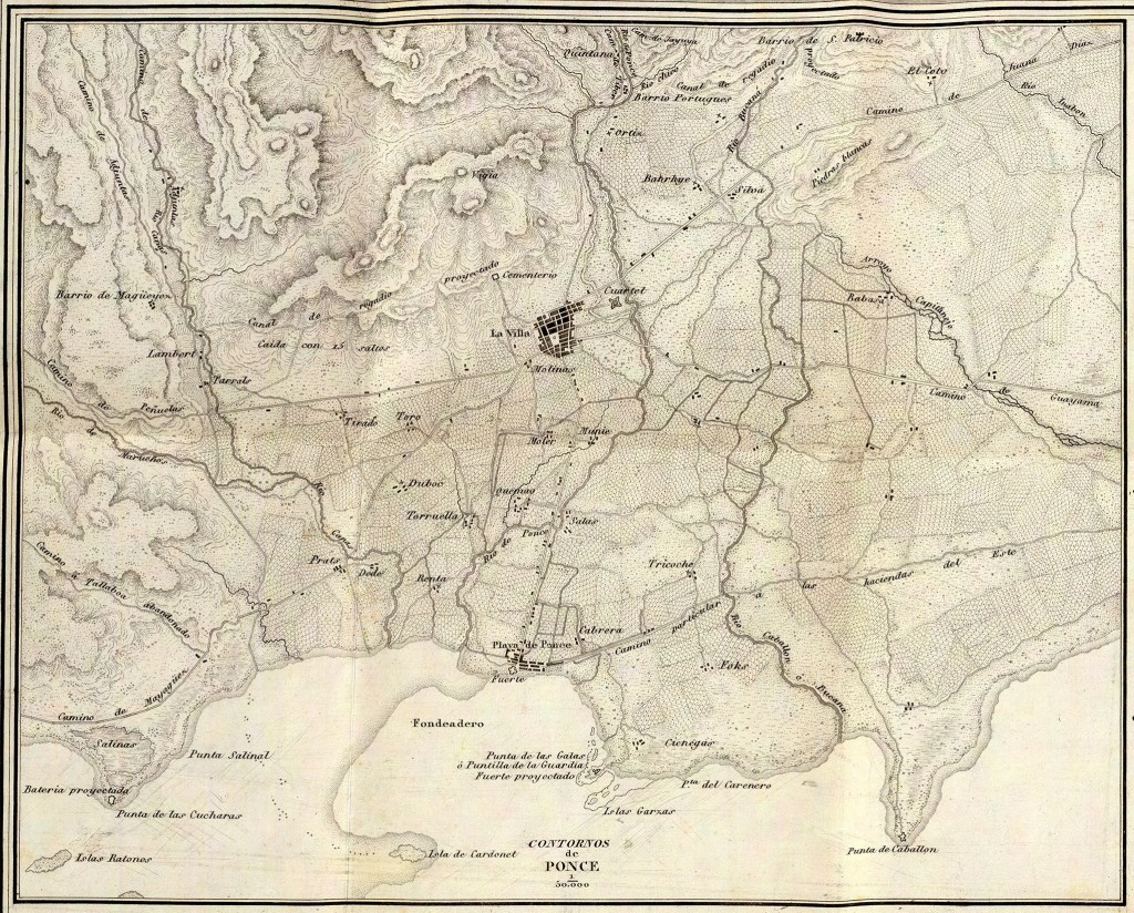 Mapa 'Contornos de Ponce (Puerto Rico)' por Francisco Coello (1822-1898) (DP26)